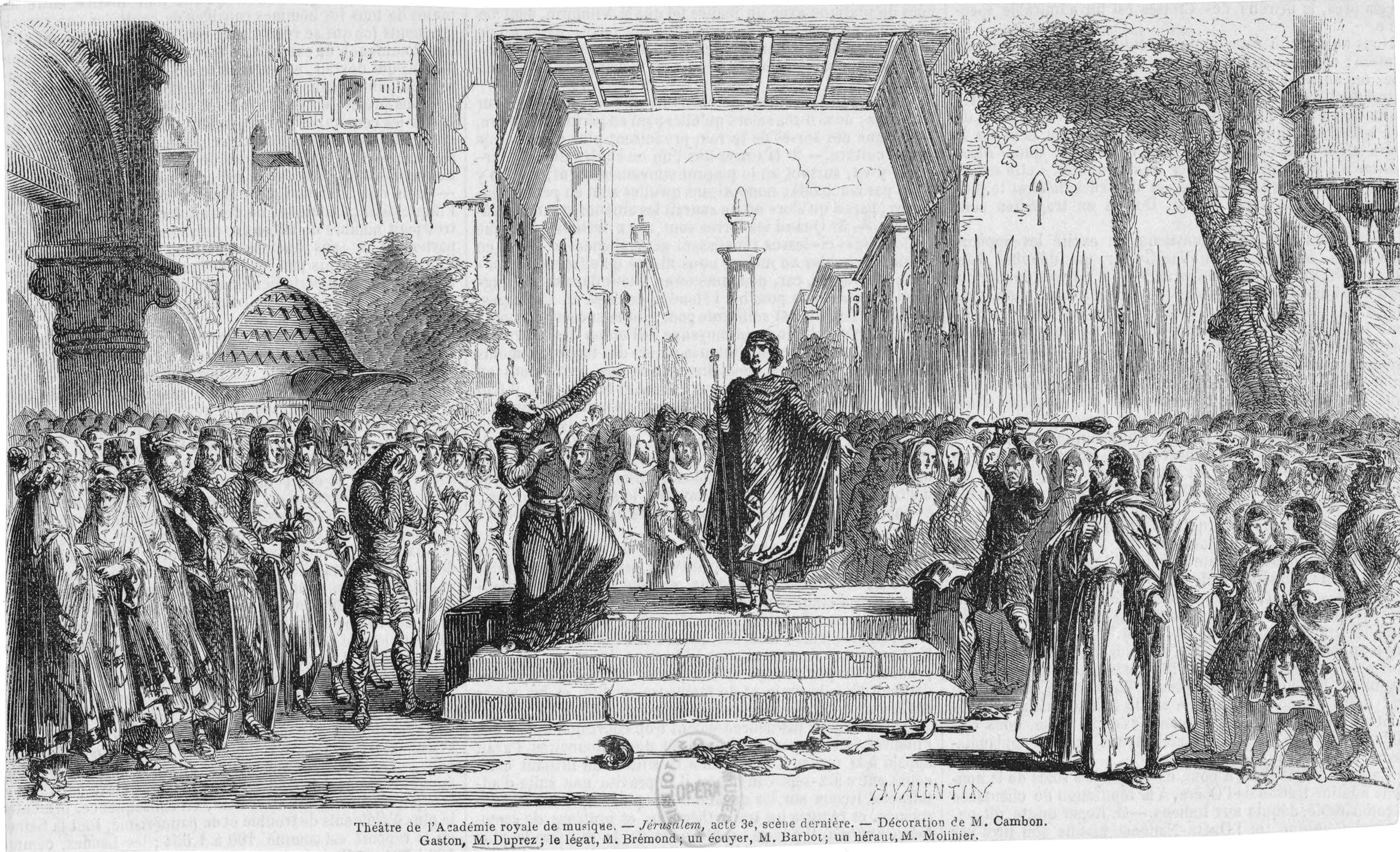 Press illustration of Act 3, final scene, of Verdi's opera Jérusalem as first performed on 26 November 1847 by the Paris Opera at the Salle Le Peletier (Théâtre de l'Académie Royale de Musique)